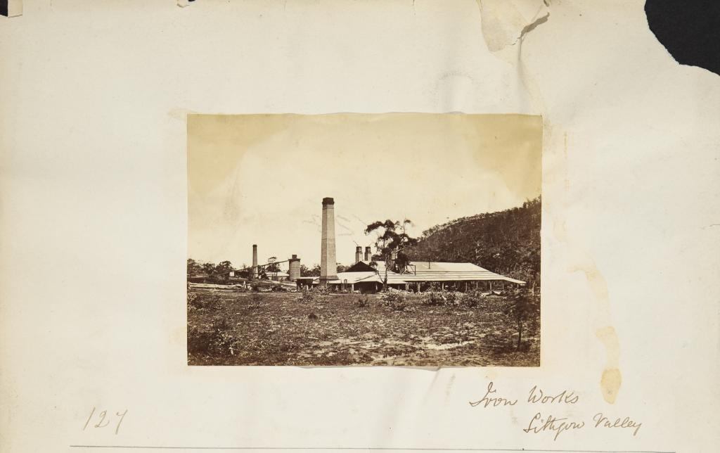 Format: Photographic positive, mounted print. Part Of: Powerhouse Museum Collection General information about the Powerhouse Museum Collection is available at Persistent URL: Acquisition credit line: Gift of Royal Australian Historical Society, 1981